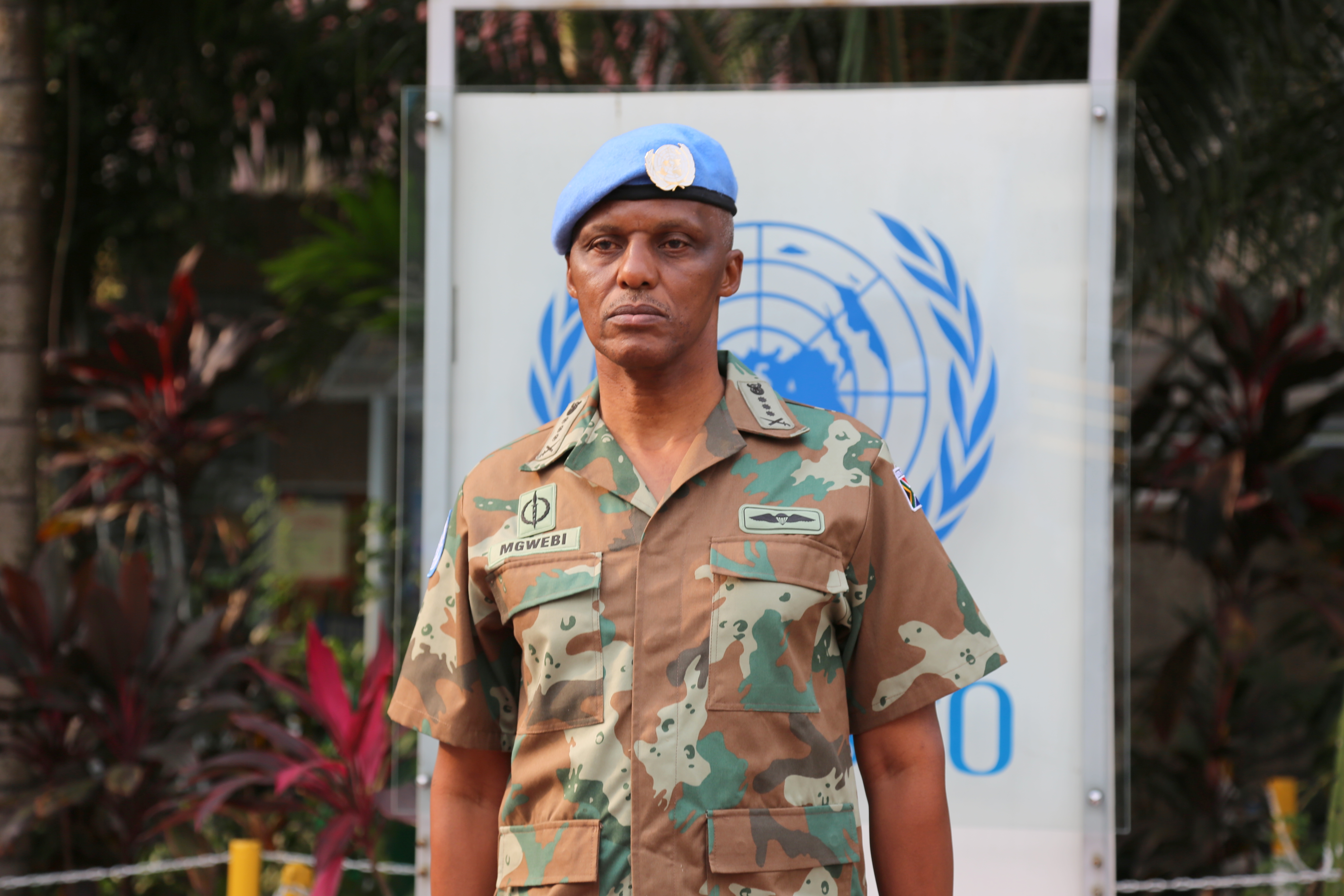 Kinshasa, RD Congo : Cérémonie d’accueil du Commandant de la Force de la MONUSCO, le général de corps d’armée Derrick Mbuyiselo Mgwebi d’Afrique du Sud, au cours d’une garde d’honneur au quartier général de la MONUSCO. Photo MONUSCO/Michael Ali